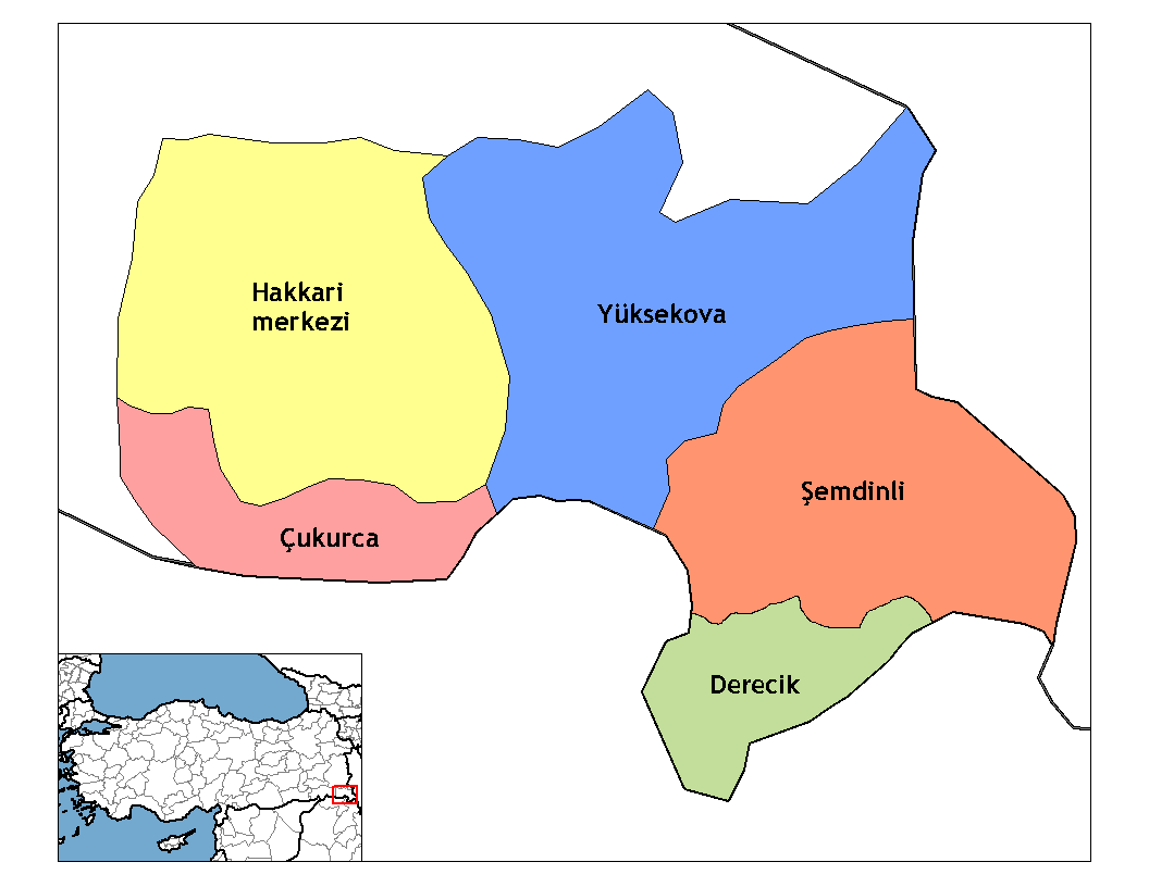 Map of the districts of Hakkari province in Turkey. Created by Rarelibra 20:56, 1 December 2006 (UTC) for public domain use, using MapInfo Professional v8.5 and various mapping resources. Edited by One Homo Sapiens Corrected text where İ,Ş,ı,ğ,or ş occurs in name. Source: [statoids-com]. Increased font size and enhanced color differences among adjacent districts. Restored original dimensions.